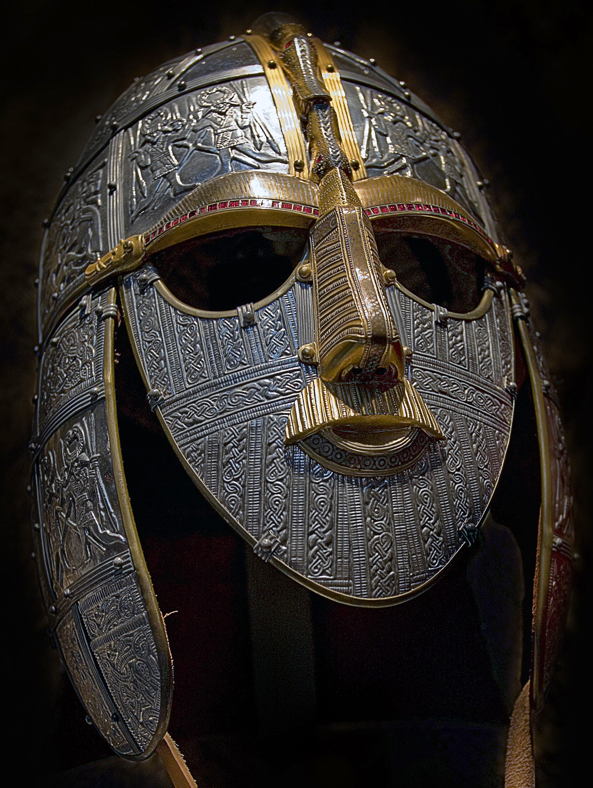 Replica of the helmet from the Sutton Hoo ship-burial 1, England.